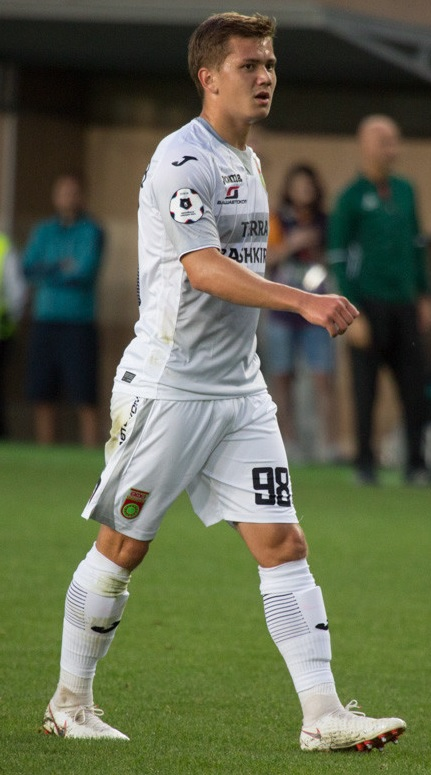 Ivan Oblyakov with FC Ufa in a game against FC Dynamo Moscow.